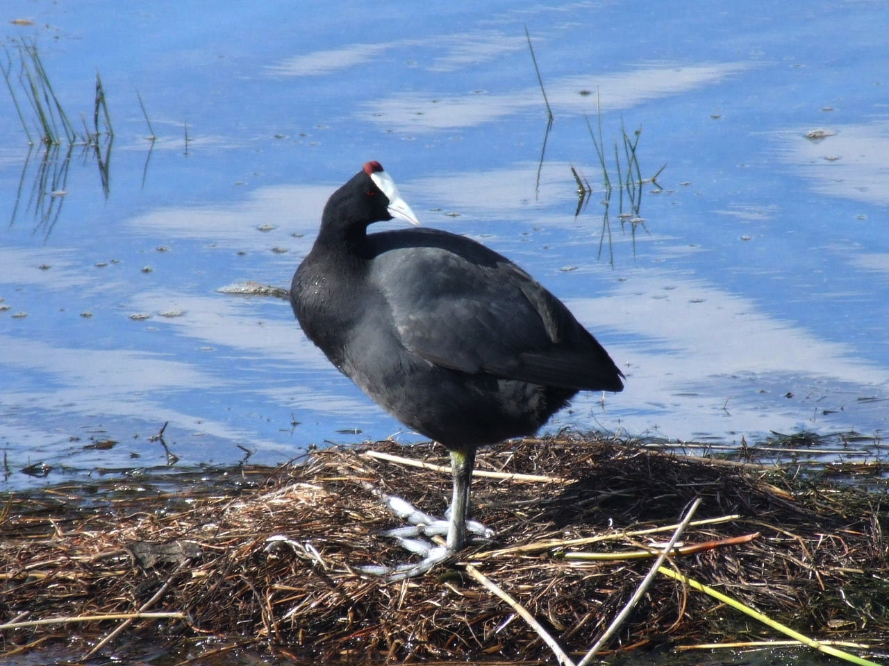 Redknobbed Coot